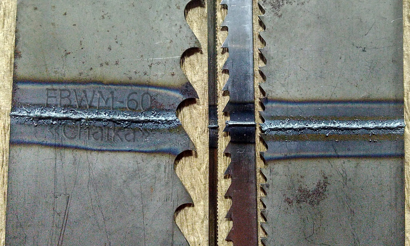 Example of a weld seam of different band saws made on a flash-butt welding machine FBWM-60